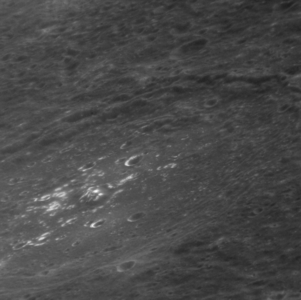 Oblique view of Abu Nuwas crater on Mercury. Bright spots near crater center are hollows. MESSENGER Narrow Angle Camera. Approximate north is to left. Width of foreground is approximately 101 km. Emission Angle: 69.6 Incidence Angle: 26.4 Latitude: 17.4 Longitude: 339.4 Phase Angle: 84.7